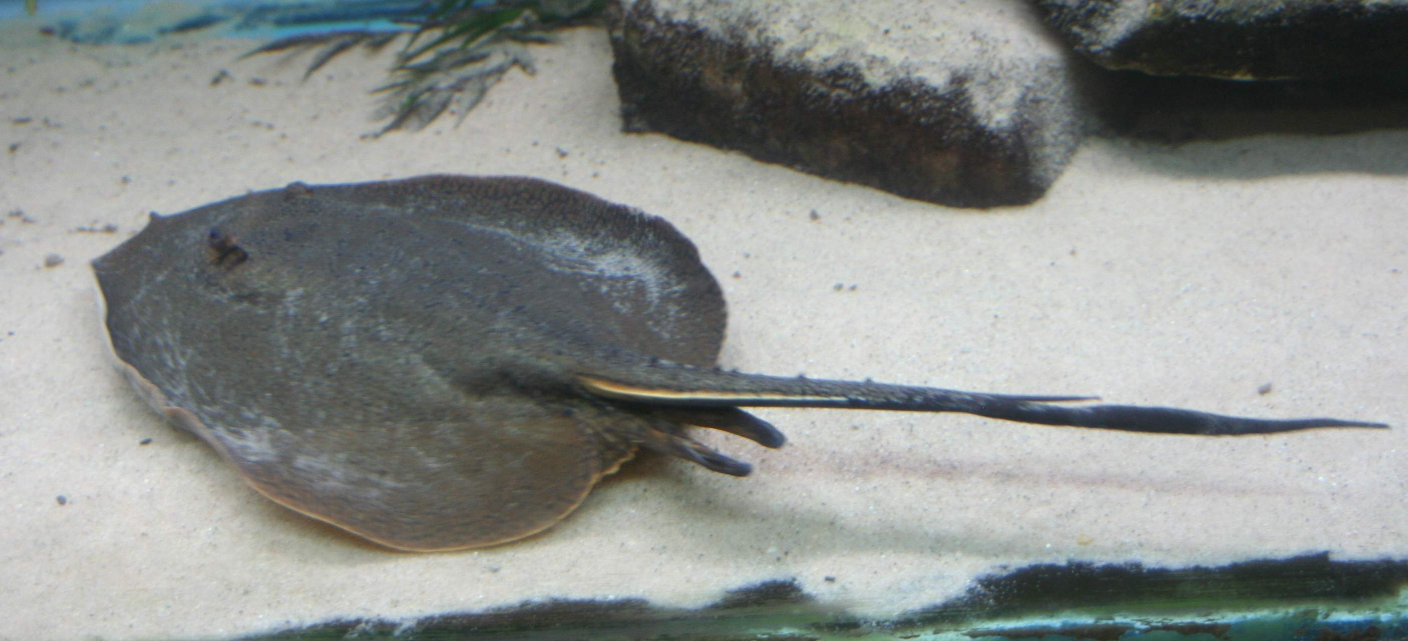 Amazon River ray (Plesiotrygon iwamae), in the Buffalo Zoo